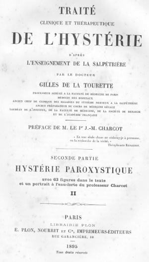 see picture